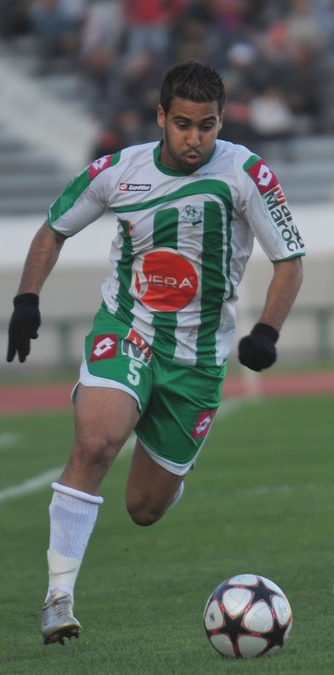 Mohsine Moutouali, player of Raja Casablanca (in green)